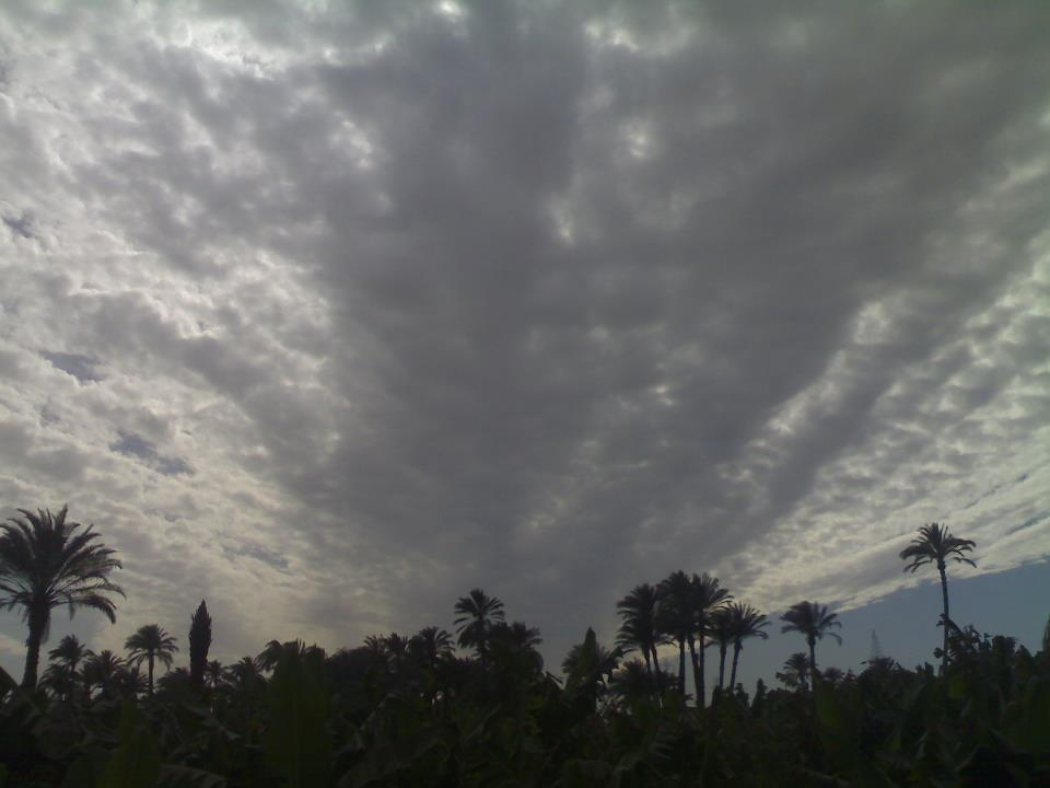 in my farm by mobile camera nokia n 72